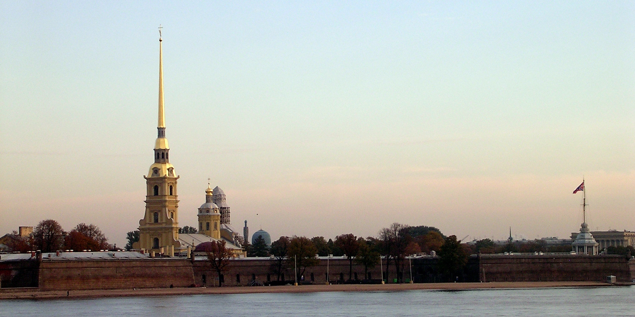 Photo by JoonYoung, Kim(16 october 2004)